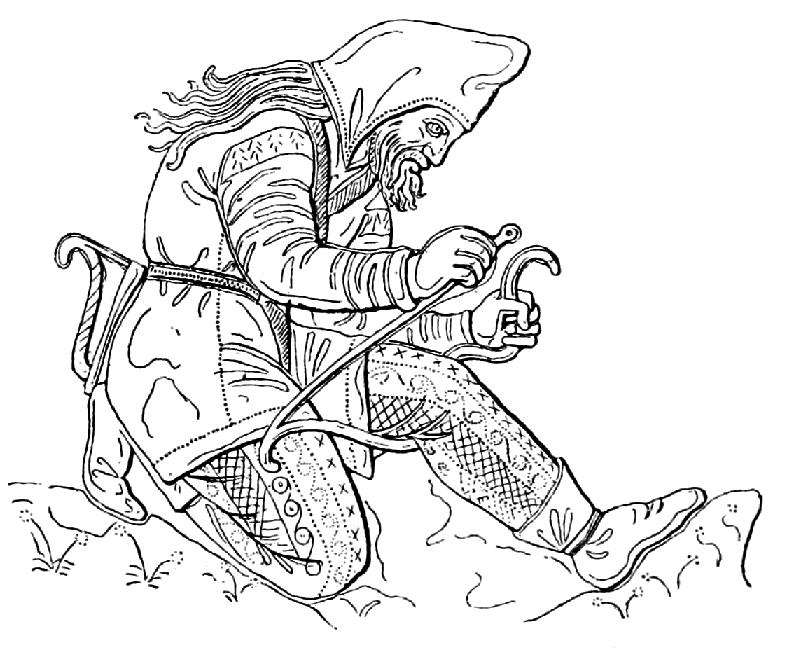 Scythian warrior stringing his bow